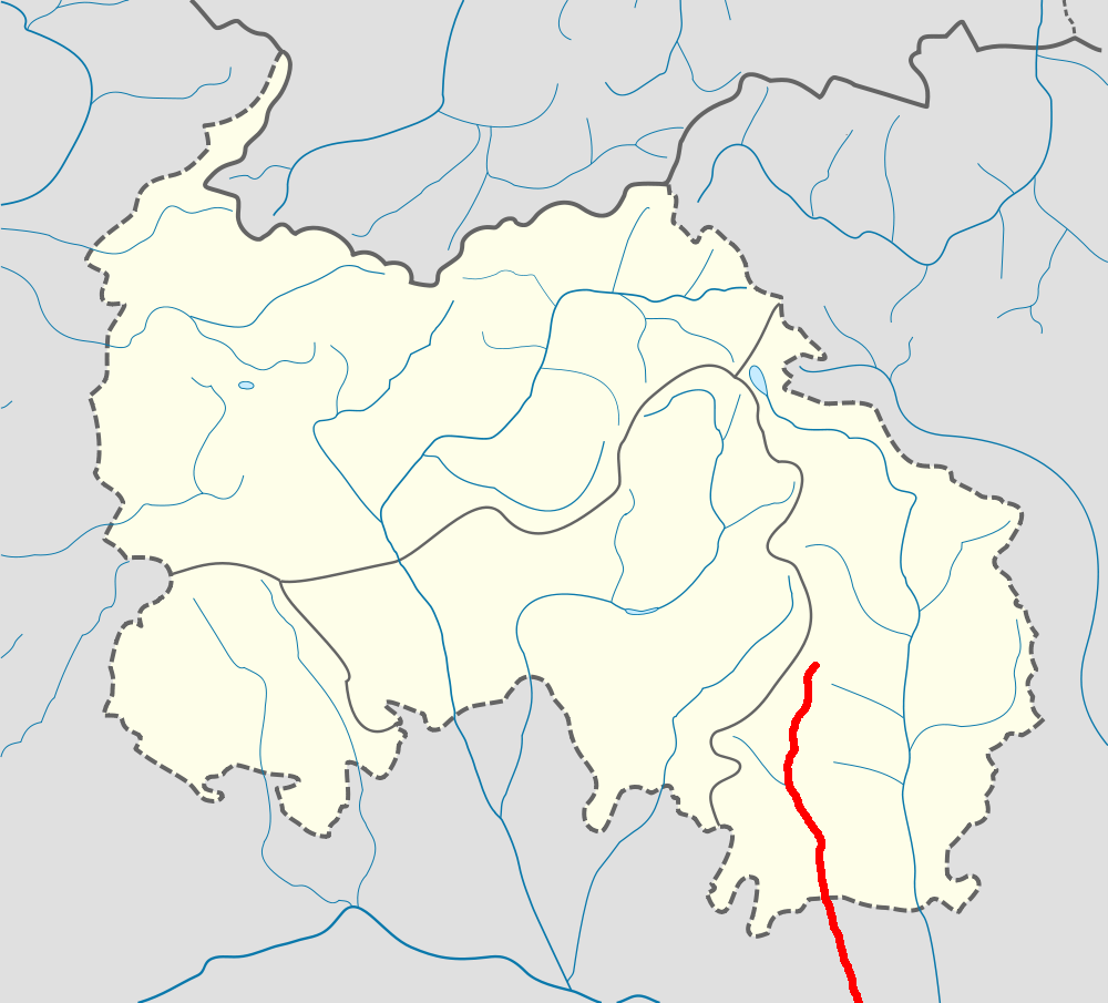 Lekhura